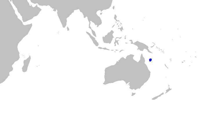 Distribution map for Hemitriakis abdita